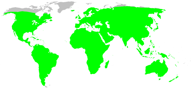 Oecobiidae habitat distribution, drawn after Platnick: World Spider Catalog 7.0. This is not a precise rendering of the distribution! If you have better information, please replace this map, or send me the info, and i will redraw it.